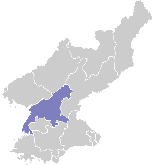 Area map of South Pyongan province